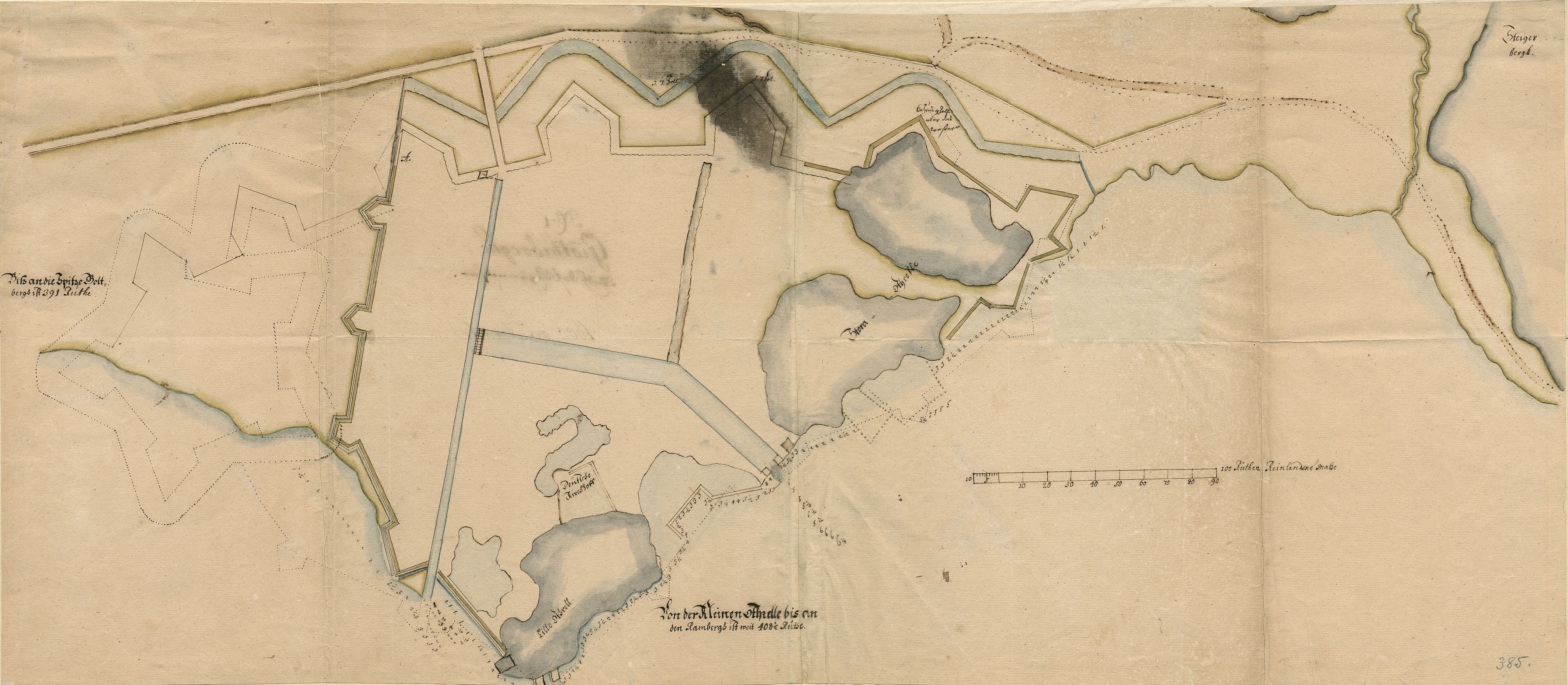 Map from 1624 showing the outline of the canals and defenseworks of the new city of Göteborg (Gothenburg), Sweden.